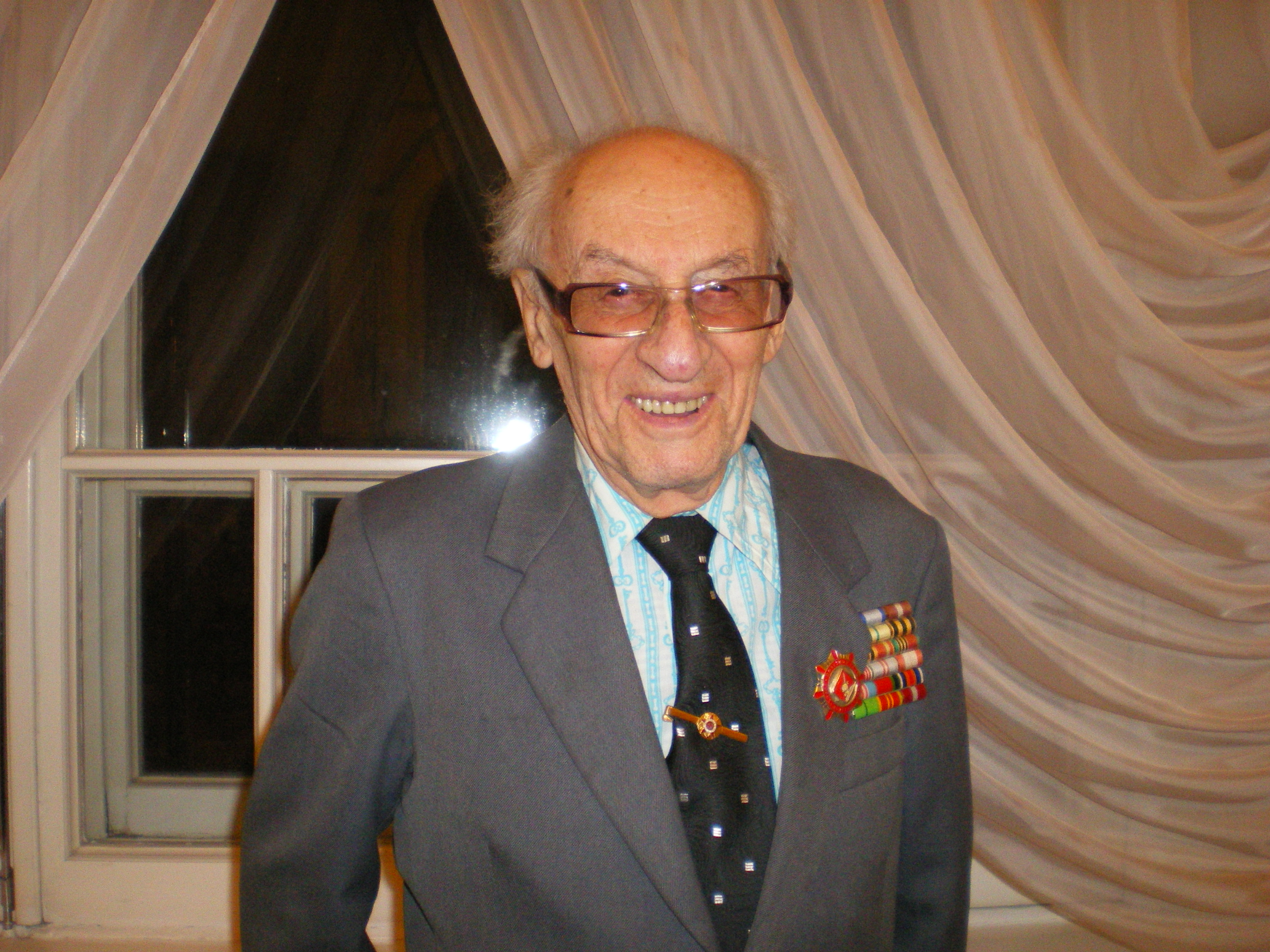 Bam Abram Naumovich